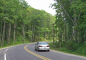 Alger County Road H-58 near Grand Marais